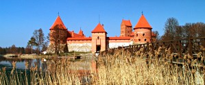 Full view of Trakai Castle